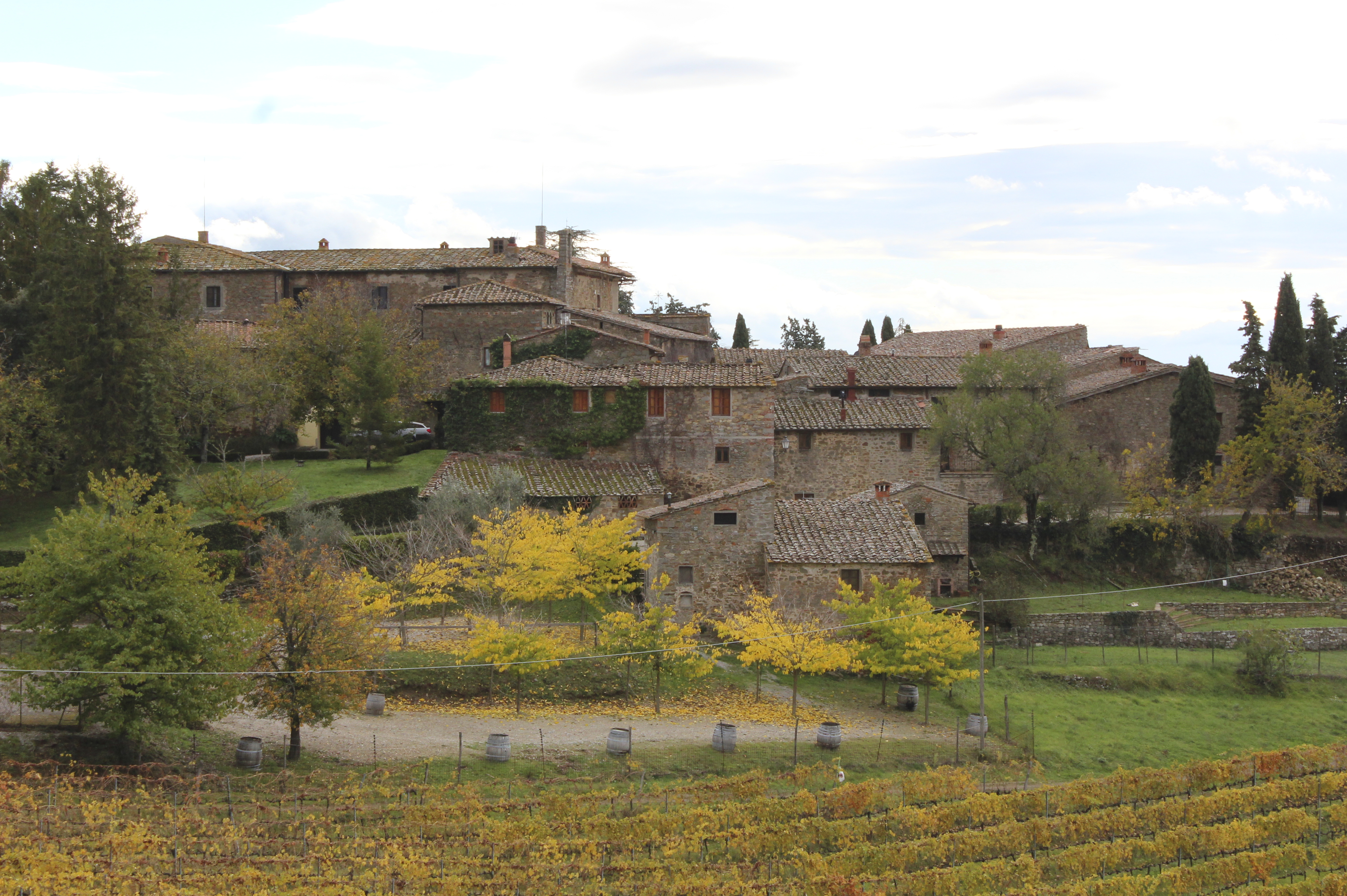 Castelvecchi, village of Radda in Chianti, Province of Siena, Tuscany, Italy